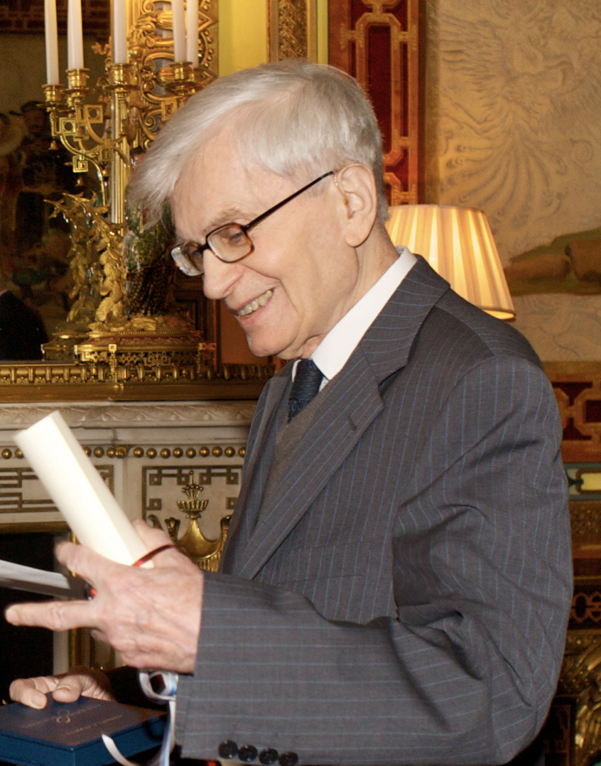 Bernard D'Espagnat receives prize from HRH The Duke of Edinburgh, Buckingham Palace